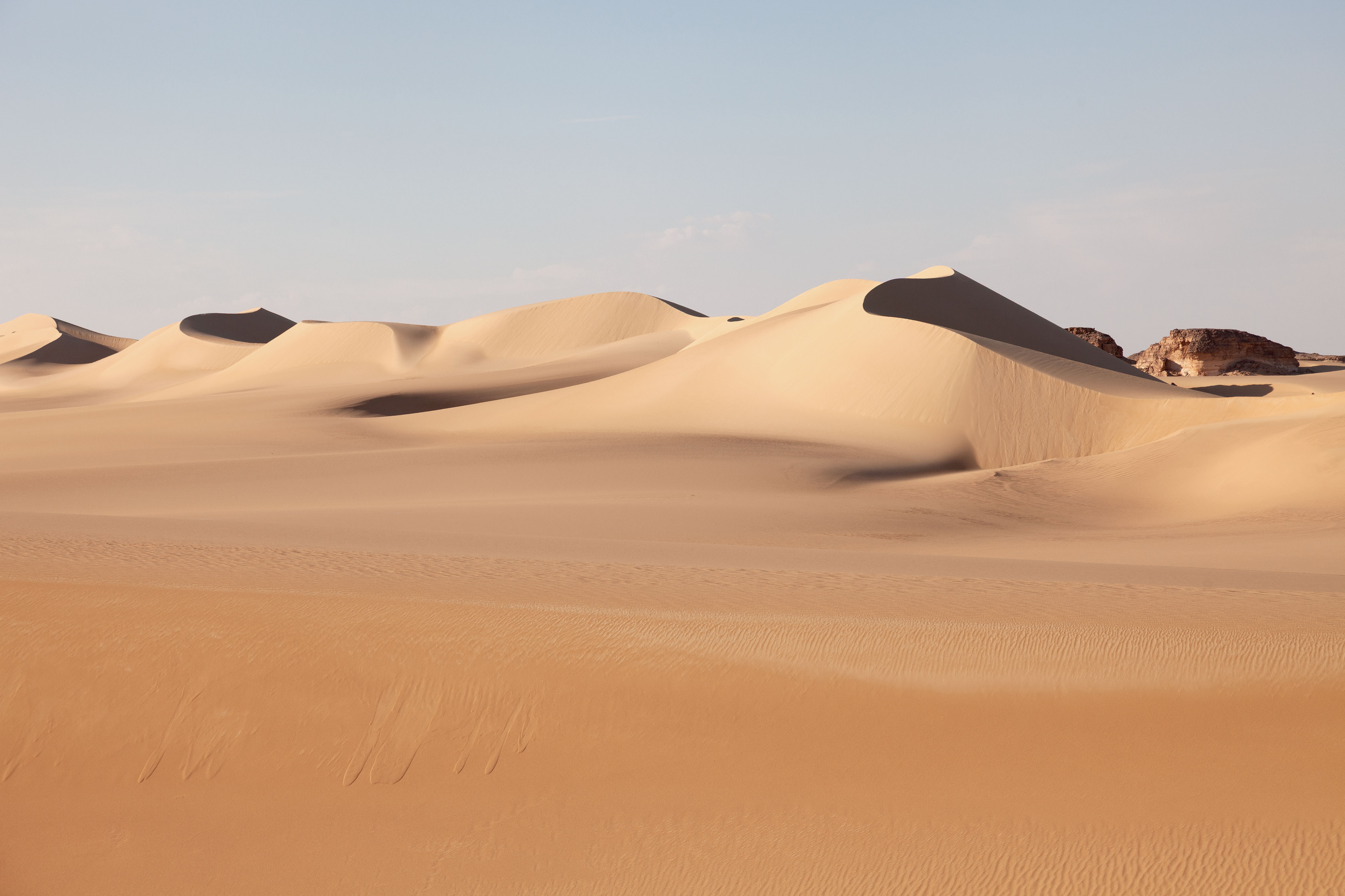 Sand dune near 'Areg, Siwa depression, Egypt